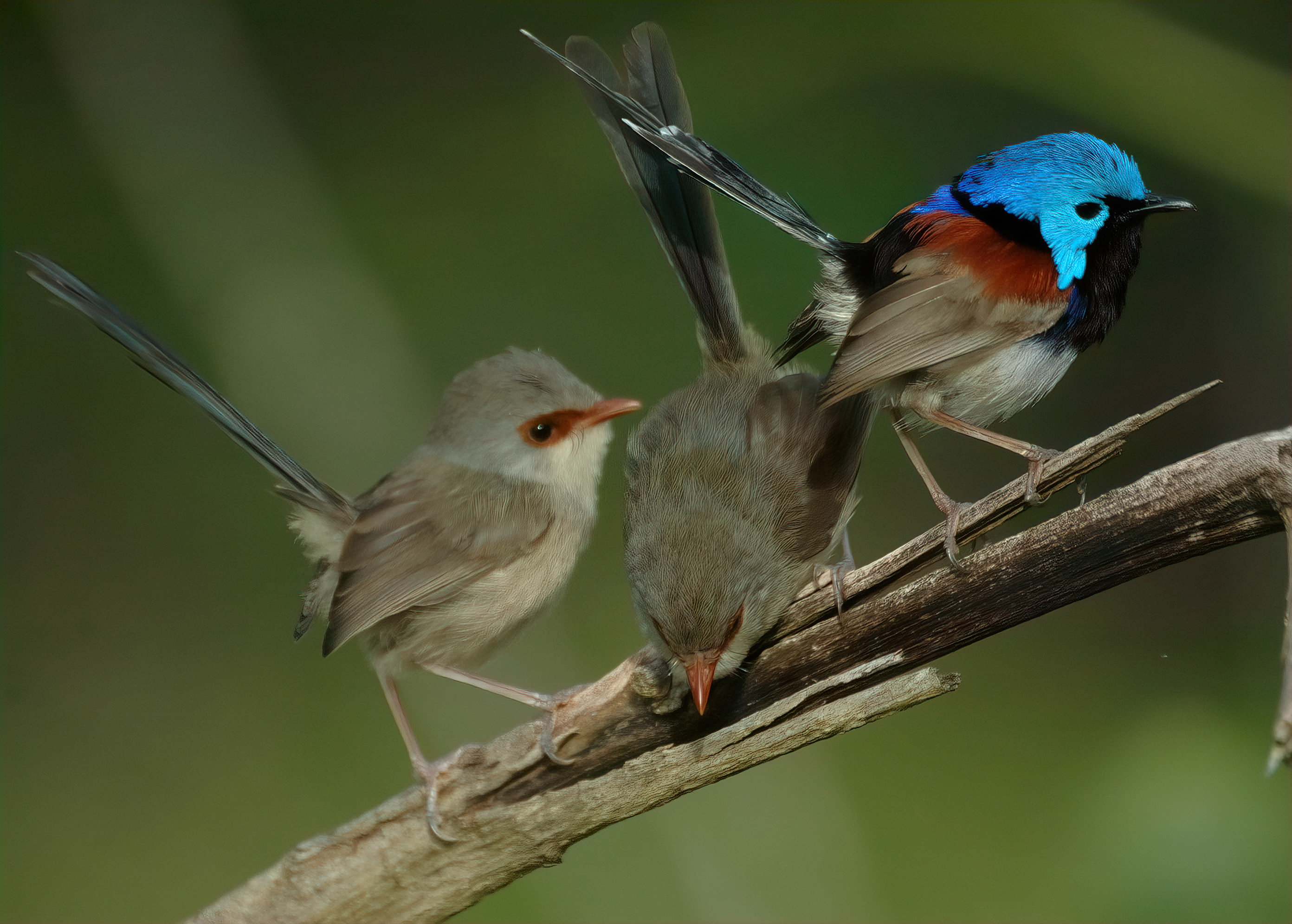 Variegated Fairy-wren, Malurus lamberti - Dayboro, SE Queensland, Australia